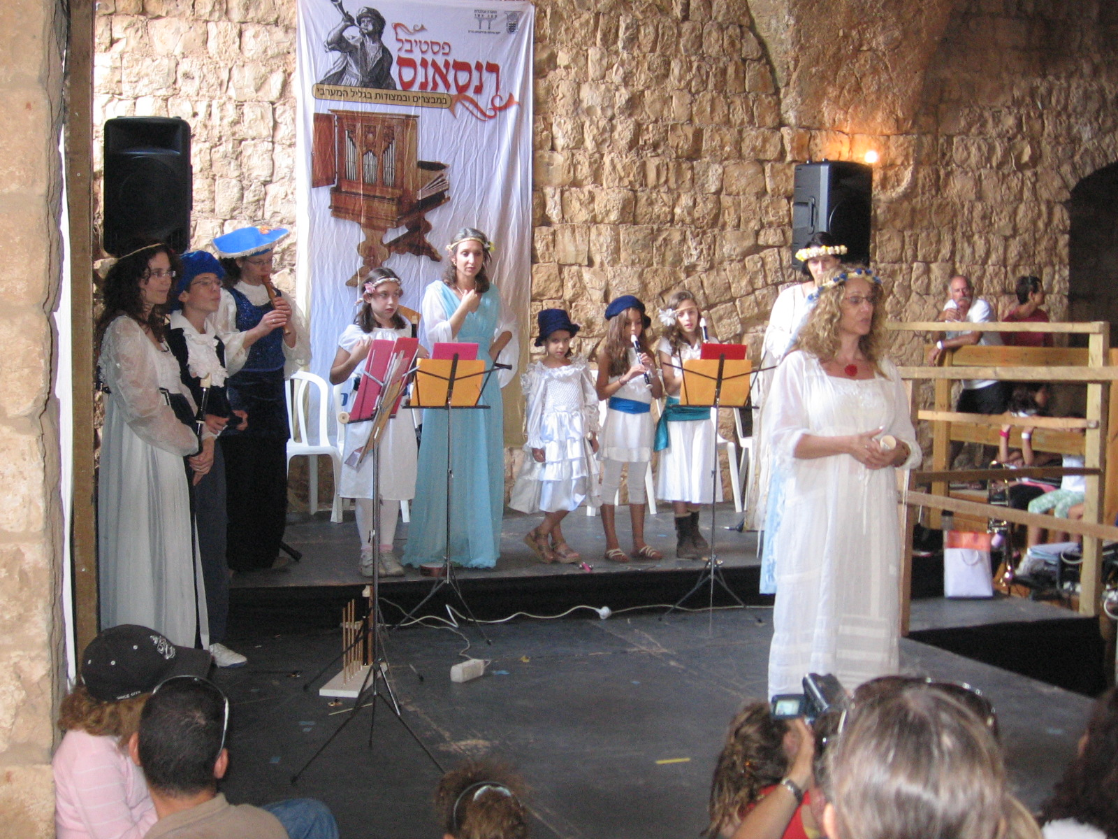 Renaissance Festival 17th at Yehiam , Entertainment